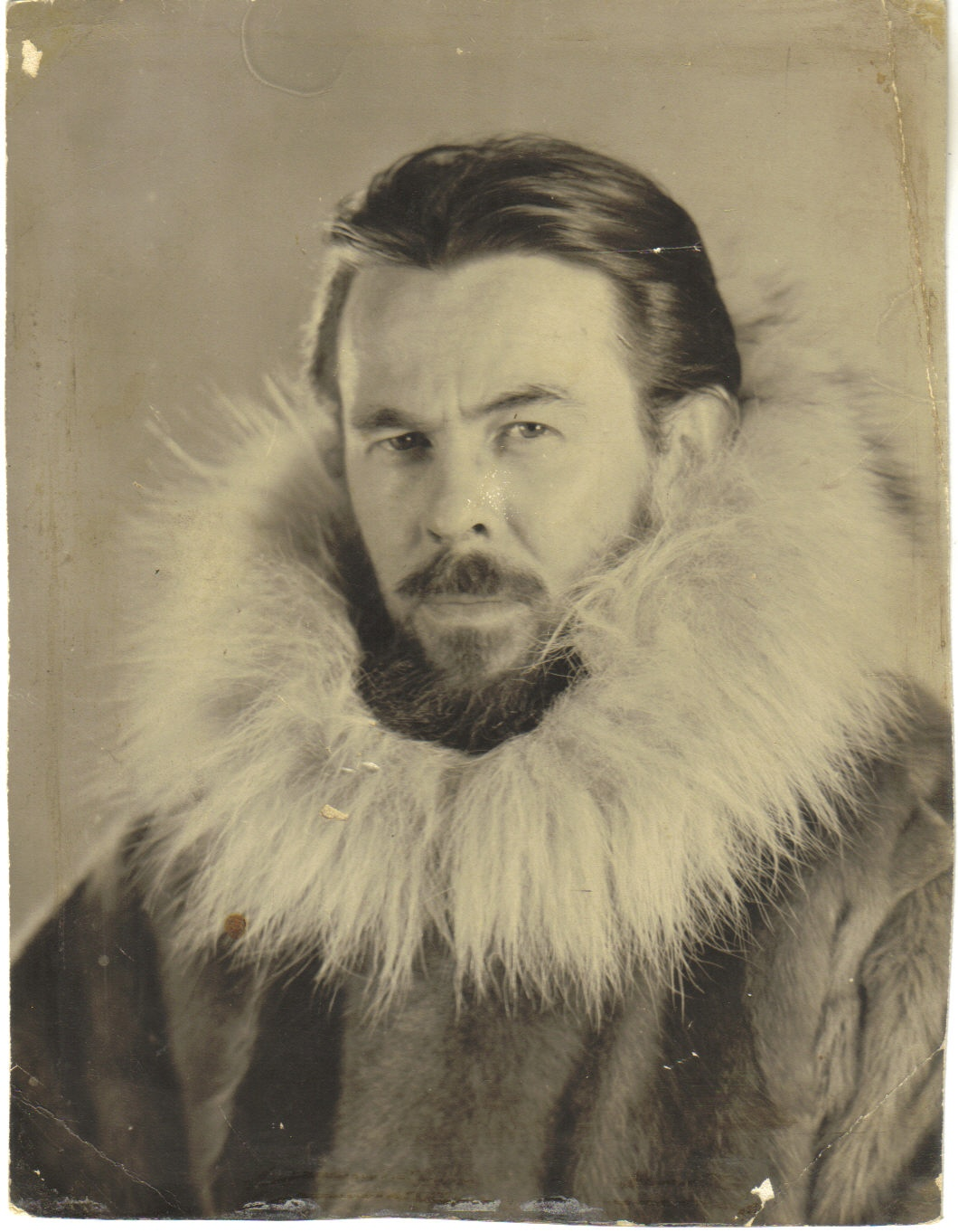 Harold P. Gilmour, Antarctic Explorer, Congressional Gold Medal Recipient, Recorder and Historian of the 1939-1941 Byrd Polar Expedition to Antarctica. This is this official USAS Portrait of Harold P. Gilmour, to be included in articles on Mount Gilmour, the USAS and Little America III.